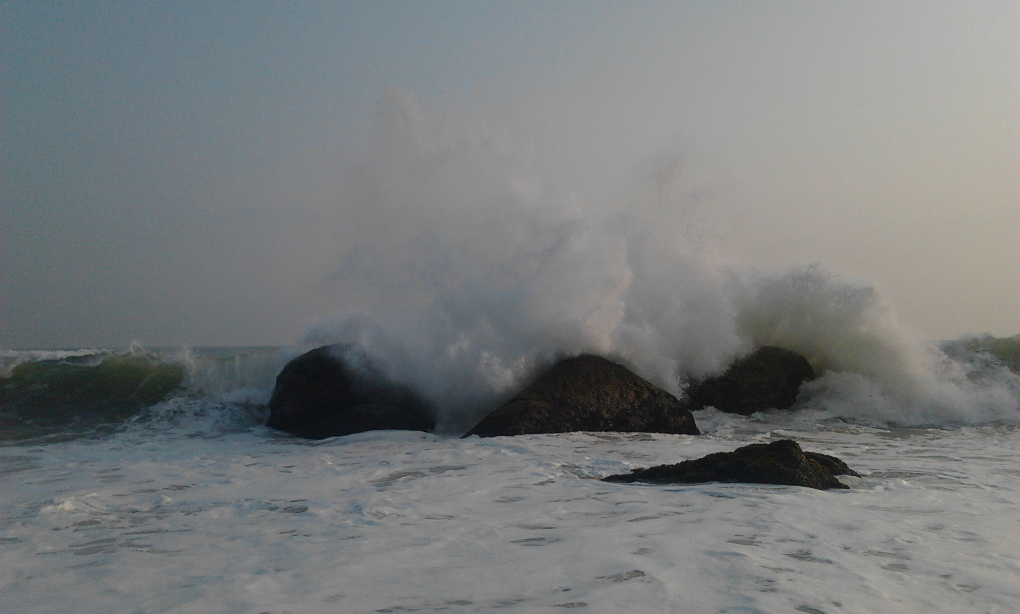 Powerful waves hitting the rocks at muttom beach